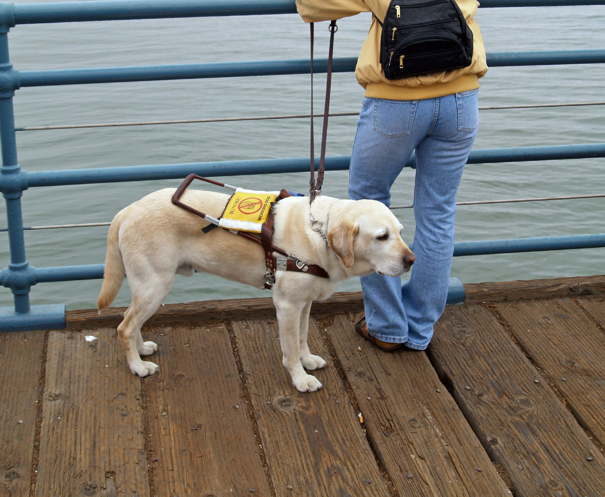 A Labrador Retriever working as an assistance dog. I'm not sure what type of assistance dog it is, but it looks like it's wearing a guide dog harness.